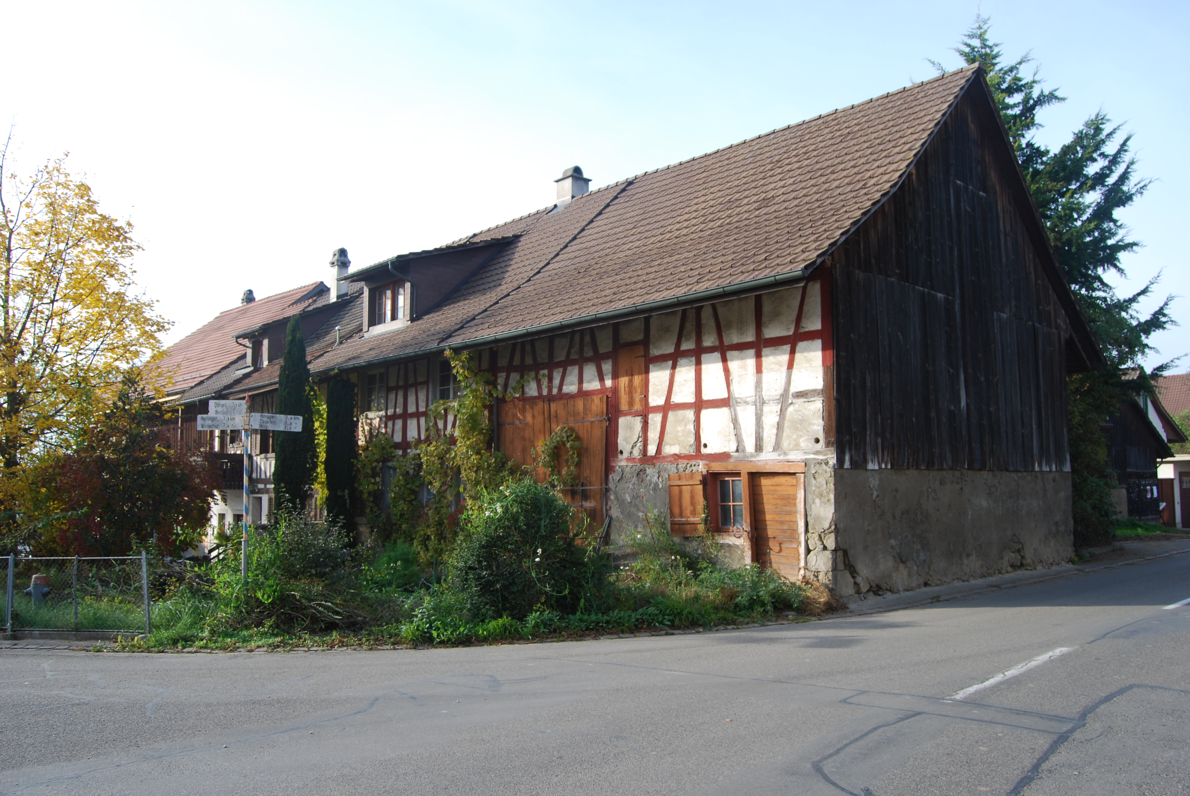 Rutschwil, munnicipality of Dägerlen, canton of Zürich, SwitzerlandEsperanto: Rutschwil, komunumo Dägerlen, Kantono Zuriko, Svislando